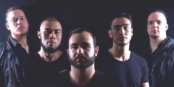 Anno Domini (NSW band) members heads (width 600 pixels) Left to right: Michael Aldeguer, Andy Suppradit, Amir Bukan, Danny Straughen, Dan Kendall used on Anno Domini (band)